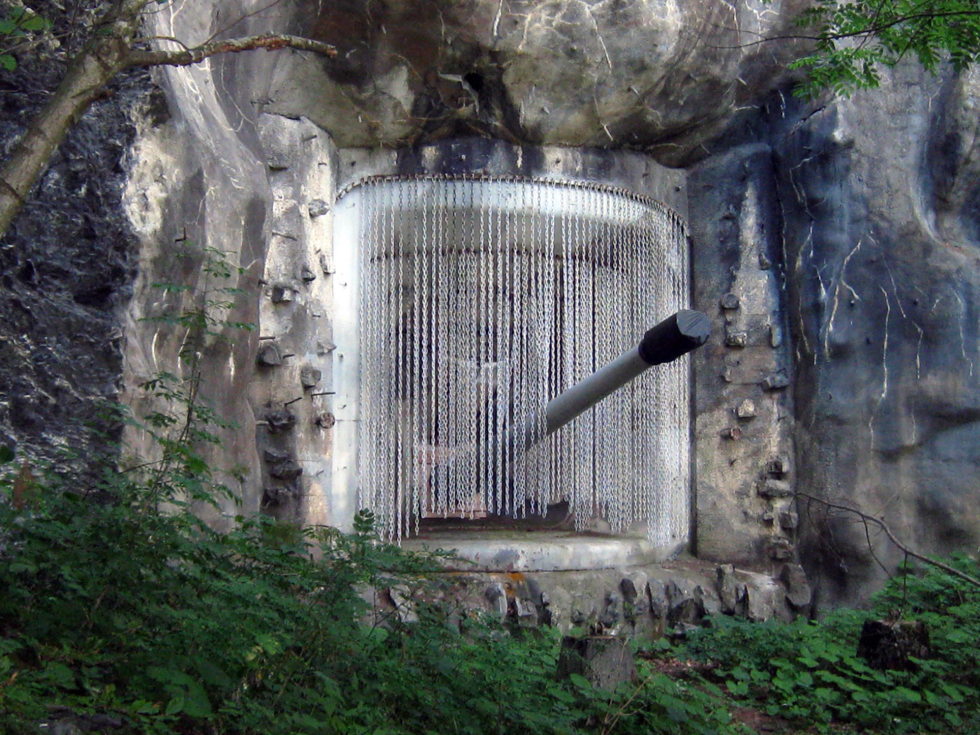 Furggels fortress, Switzerland, 15 cm casemate cannon